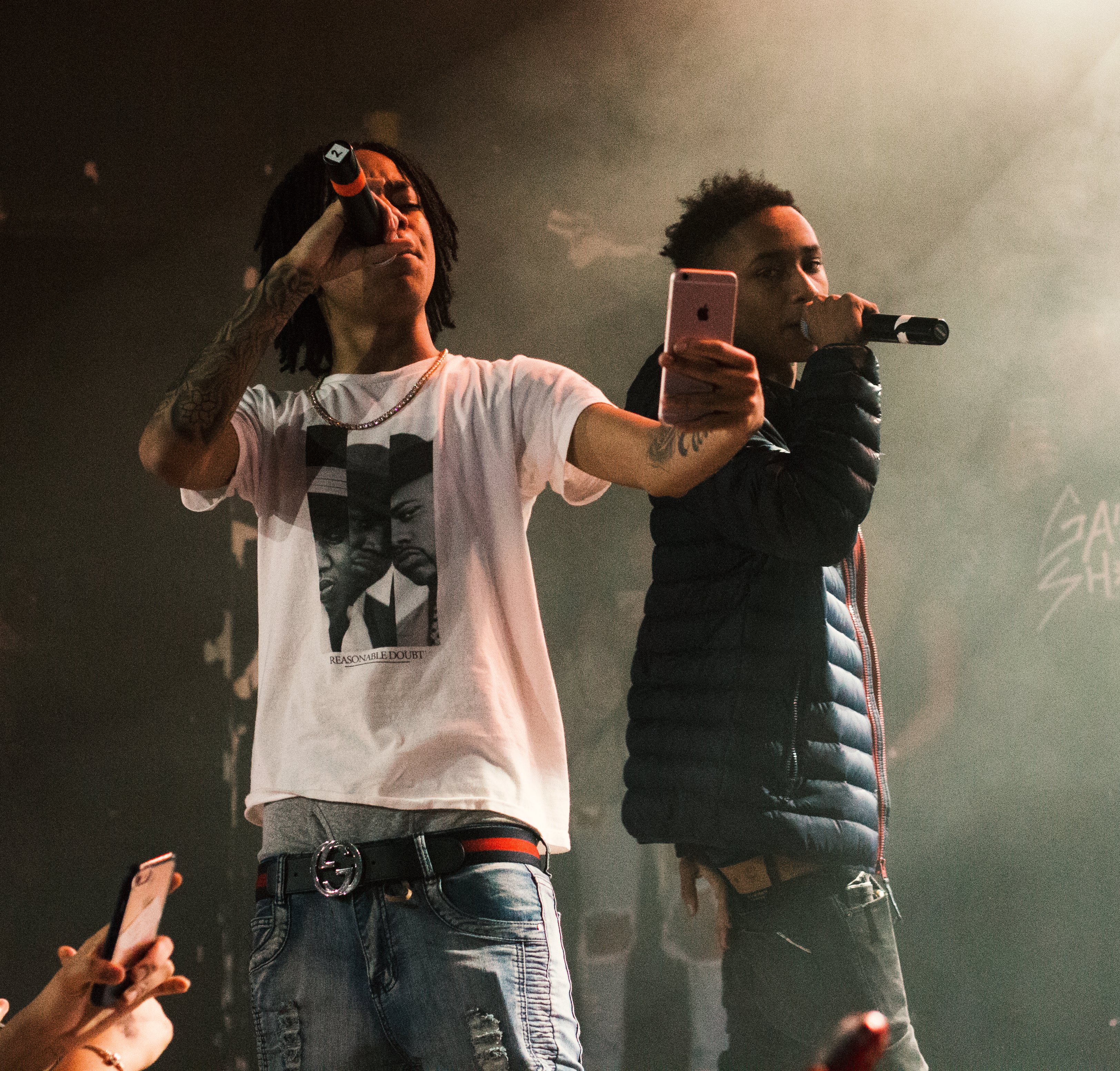 Live at the Mod Club Support from TripSixx Shot by Mac Downey (@mac.downey) Jan 27, 2018